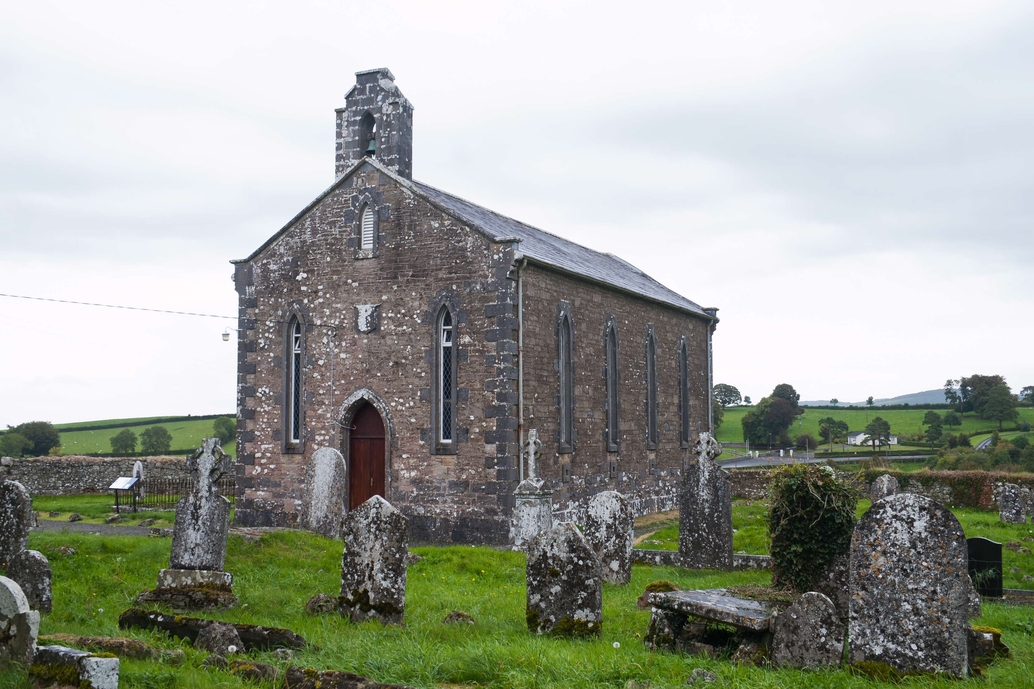 West gable of St. Ciaran's Church.